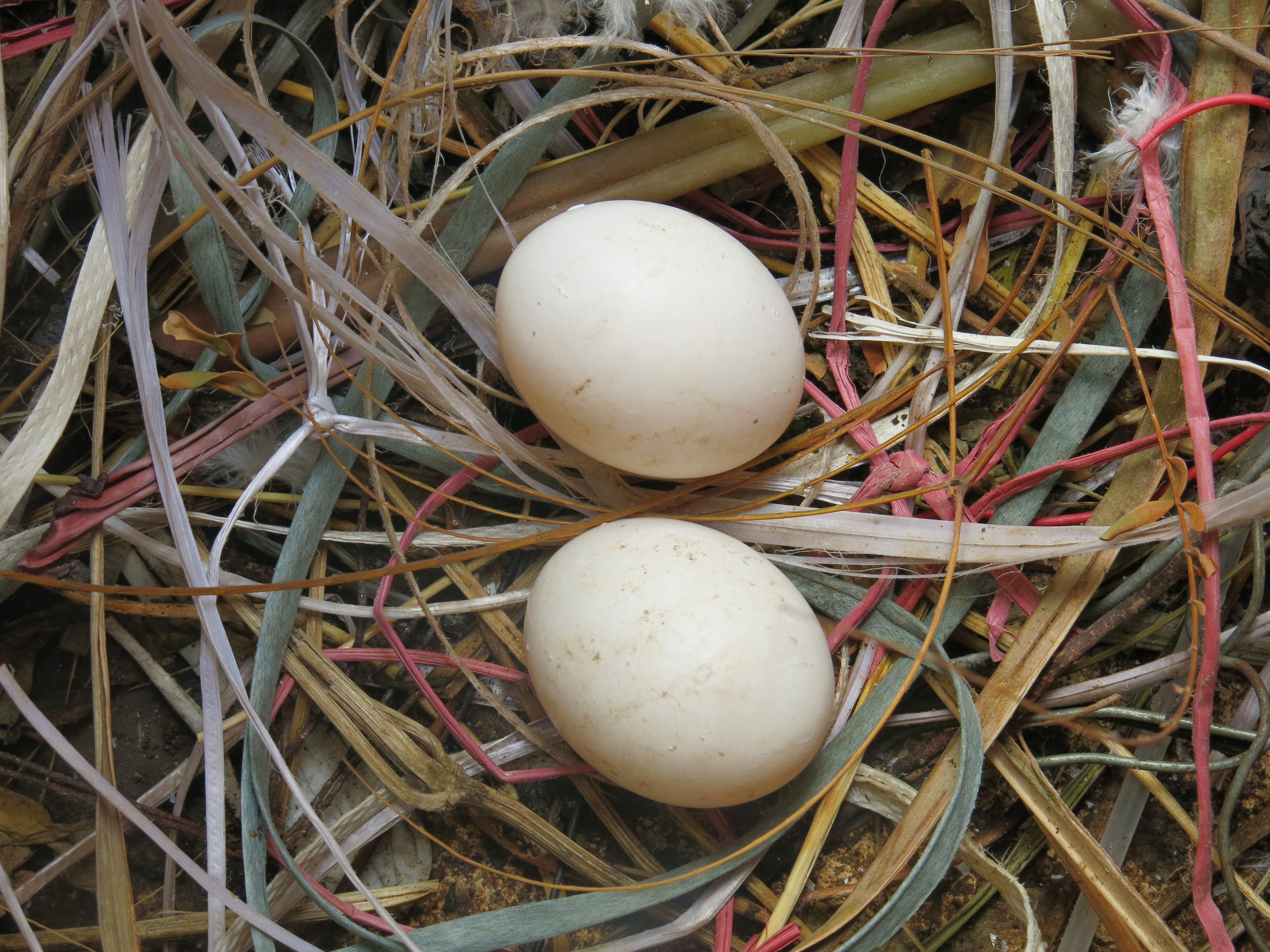 Eggs of an Indian Pigeon. The eggs measure about 1.4 x 1.0 inches. The eggs were laid in the flower bed area outside the building.